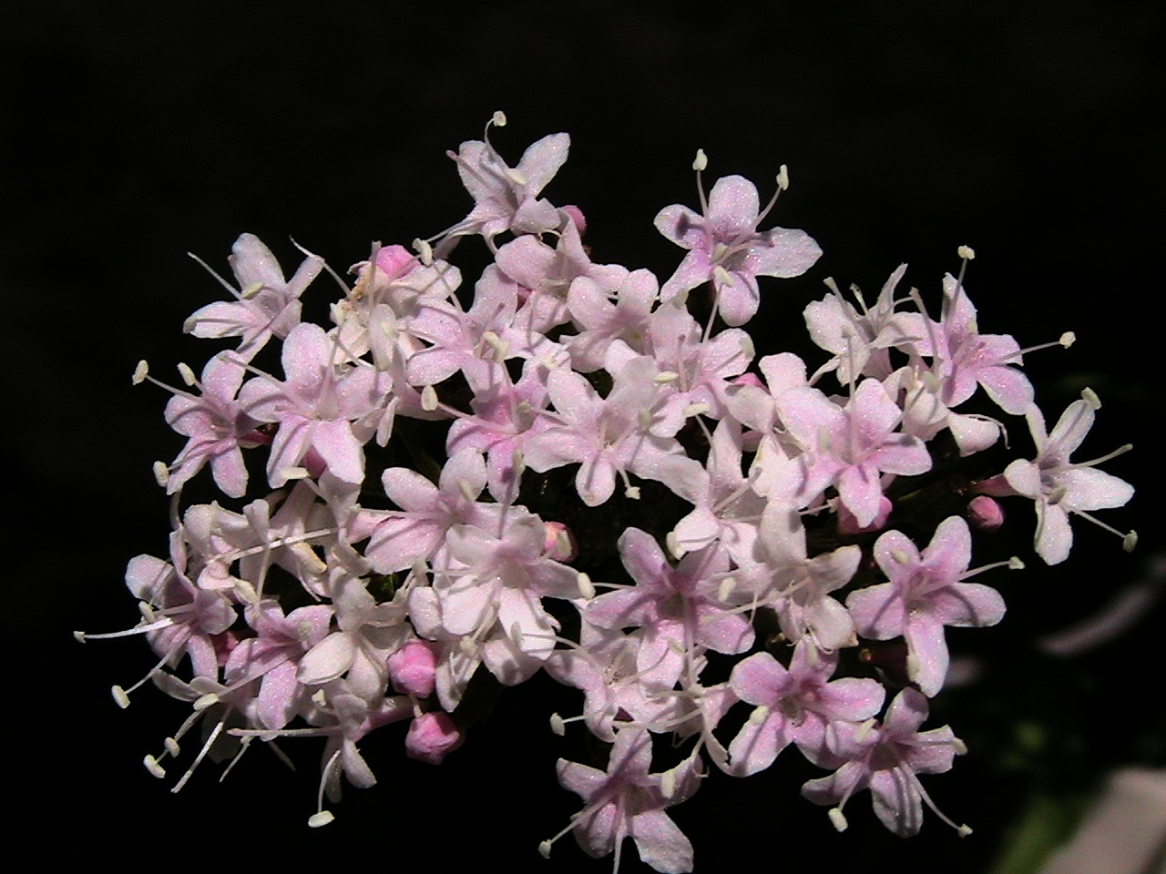 Valeriana montana. In la Bòfia, Odèn (Solsonès - Catalunya). To 1.750 m. altitudeValeriana montana